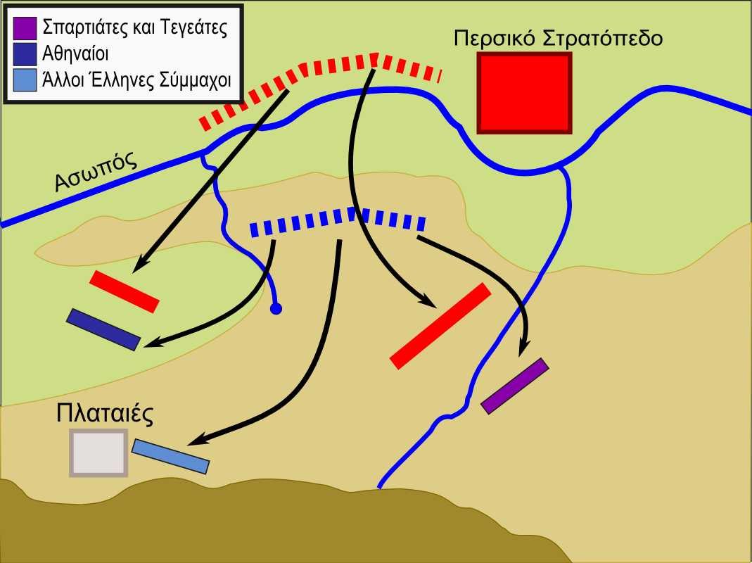 Sketch map, and diagram of the later movements in the Battle of Plataea (479 BC). After Tom Holland (2005).